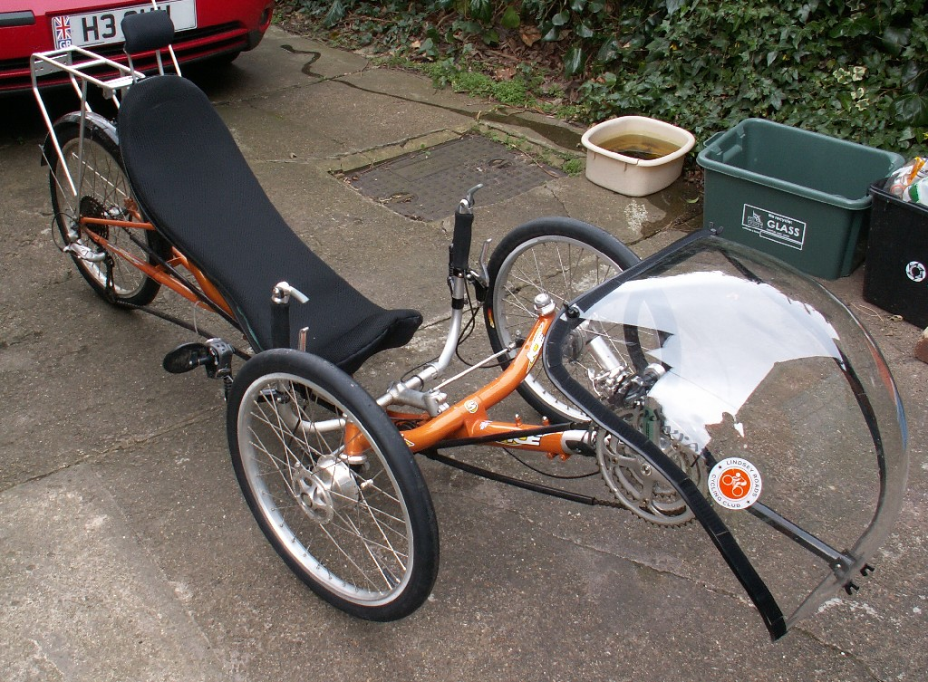 Picture of a Trice S recumbent tricycle